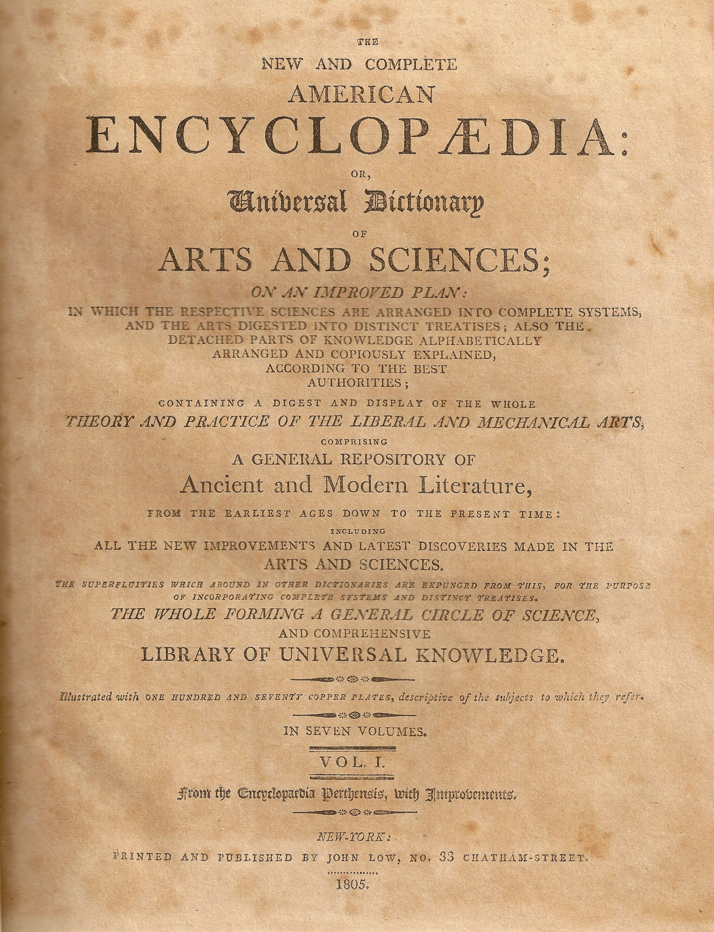 Title page of Low's Encyclopaedia